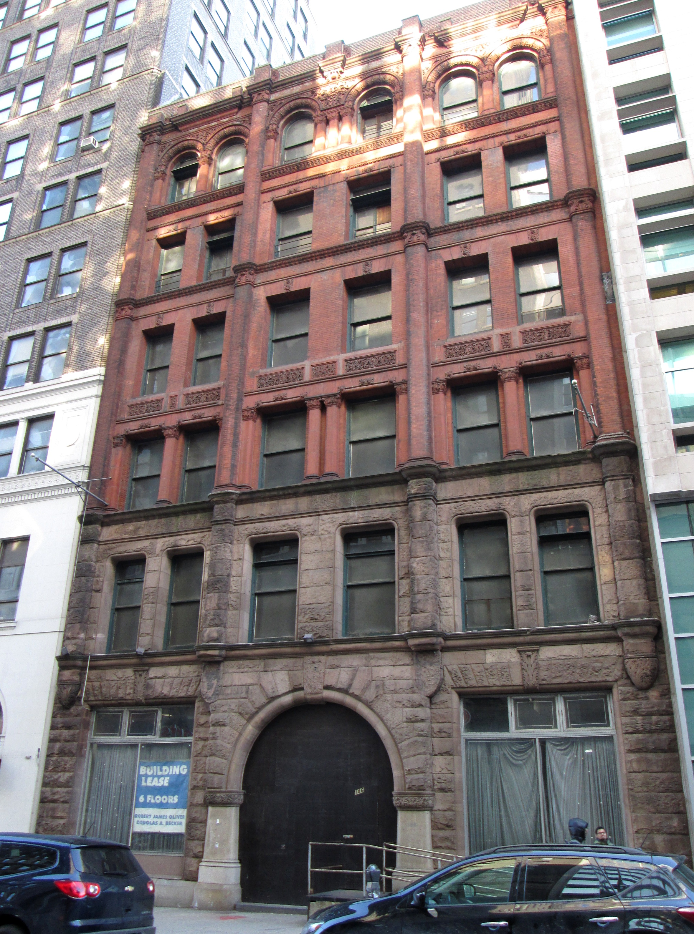 The former Franklin Building at 186 Remsen Street between Court and Clinton Streets in the Brooklyn Heights neighborhood of Brooklyn, New York City, was built c.1890 and was designed by the Parfitt Brothers in a combination of the Romanesque Revival and Queen Anne styles. The building originally had another 1 1/2 stories, which were lost c. 1950. It is located in the Borough Hall Skyscraper Historic District created in 2010. (Sources: AIA Guide to NYC (5th ed.) and "Borough Hall Skyscraper Historic District Designation Report")